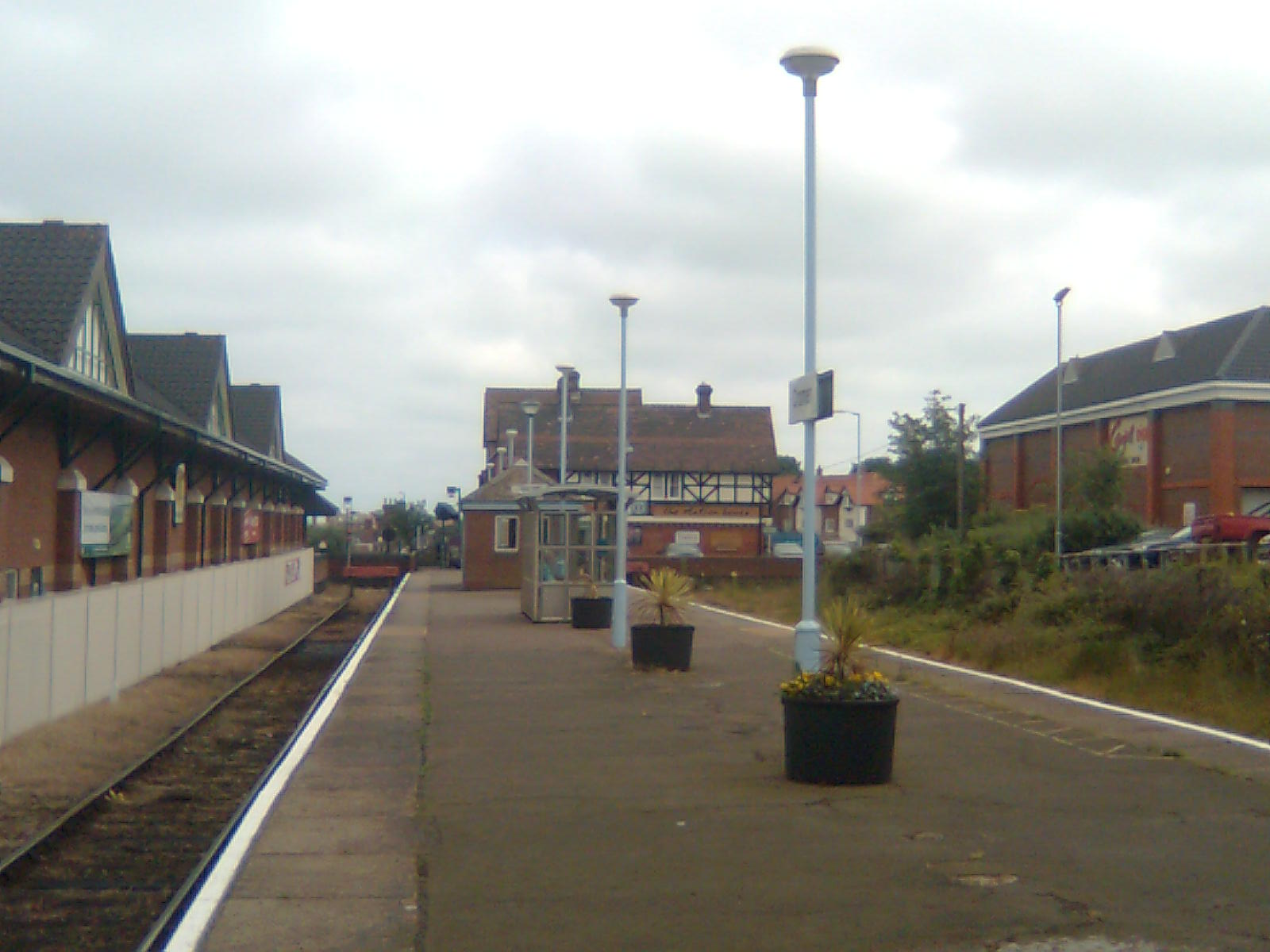 Taken from the end of the platform at Cromer Railway Station. Looking towards the station house pub and the entrance to Morrisons